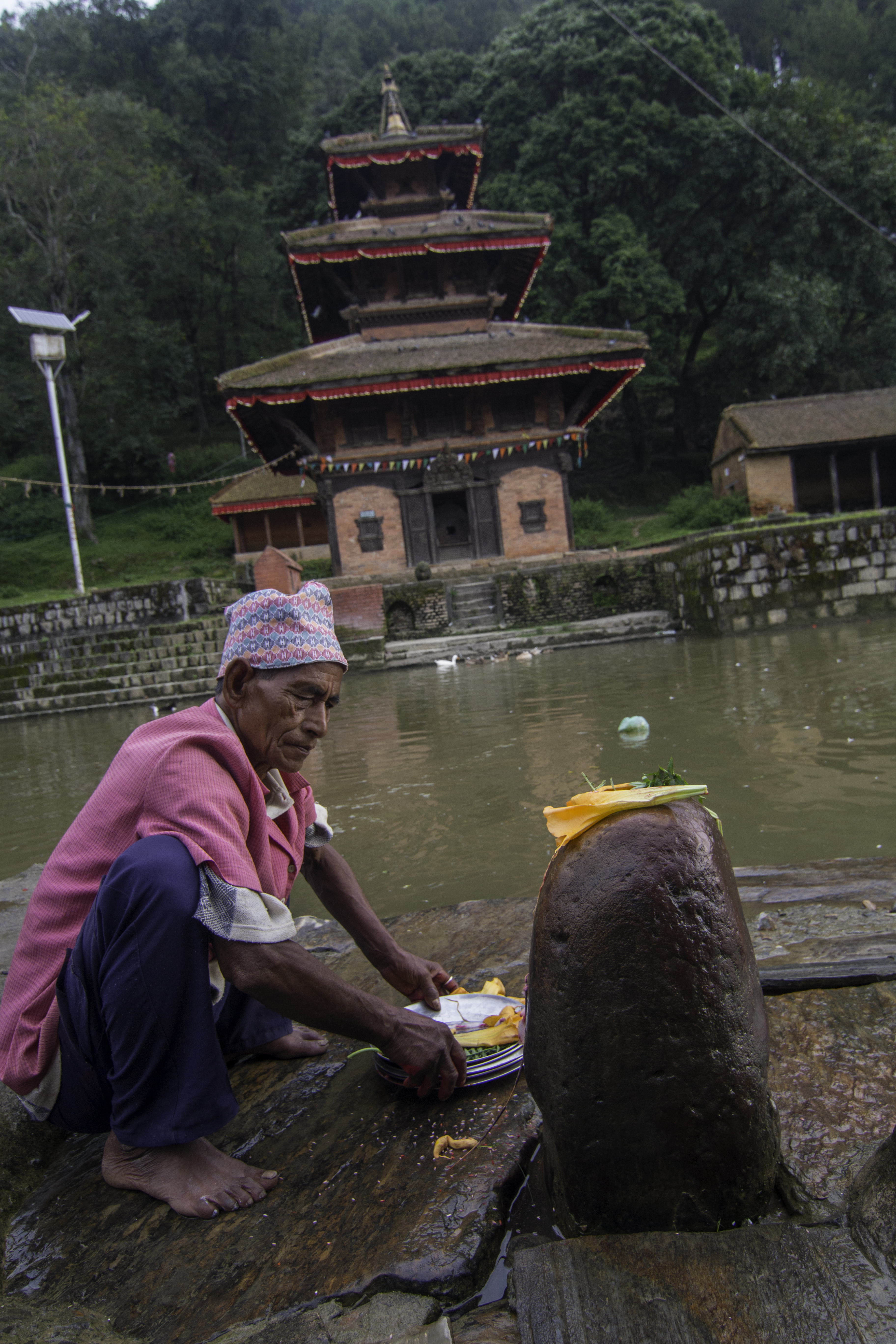 Shachi Tirtha Tribenighat at Panauti, Kabhre and its sculptures monuments.